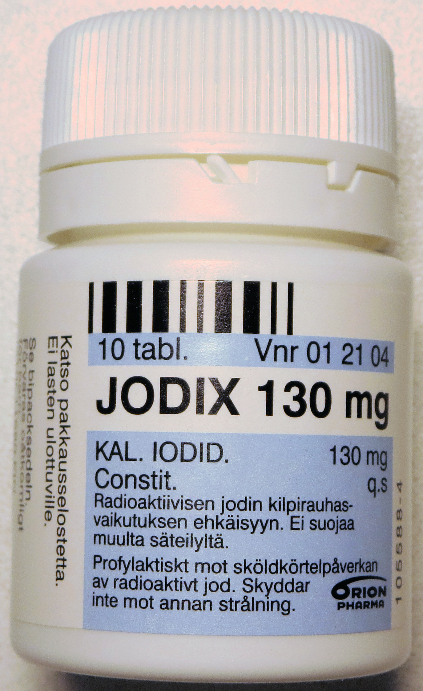 Potassium iodide pills for protecting the thyroid from radioactive iodine. The text on the bottle is in Finnish and Swedish languages.